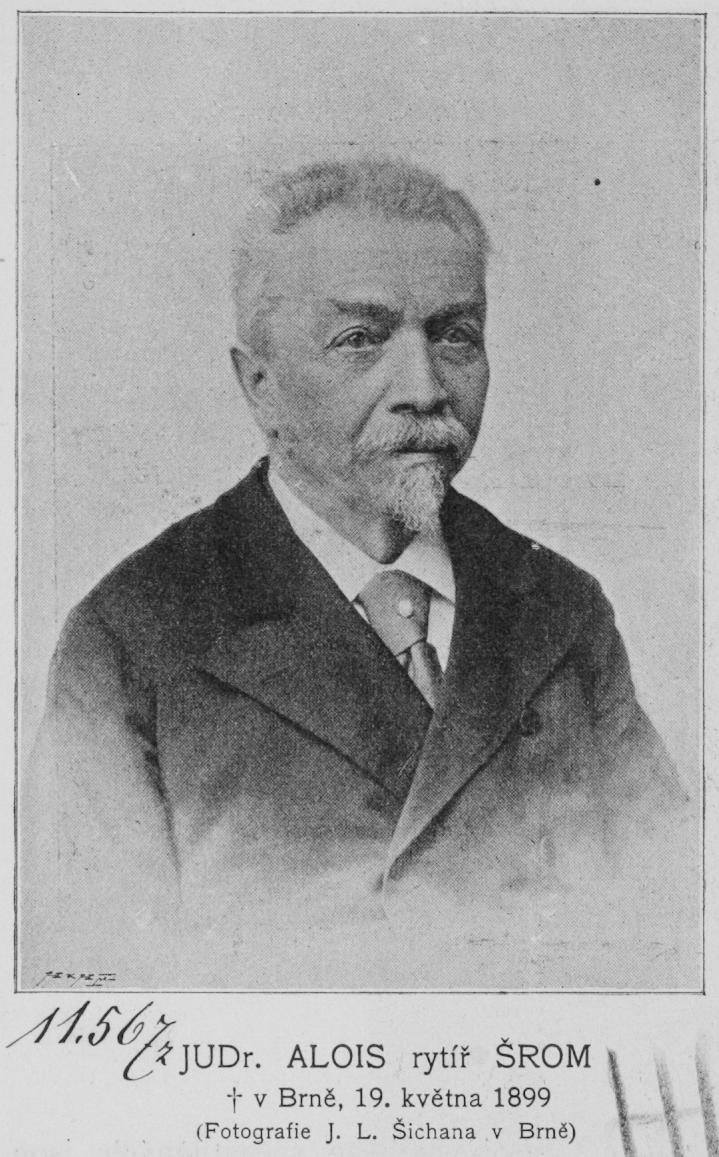 Portrait of František Alois Šrom (1845 - 1899), Moravian politician